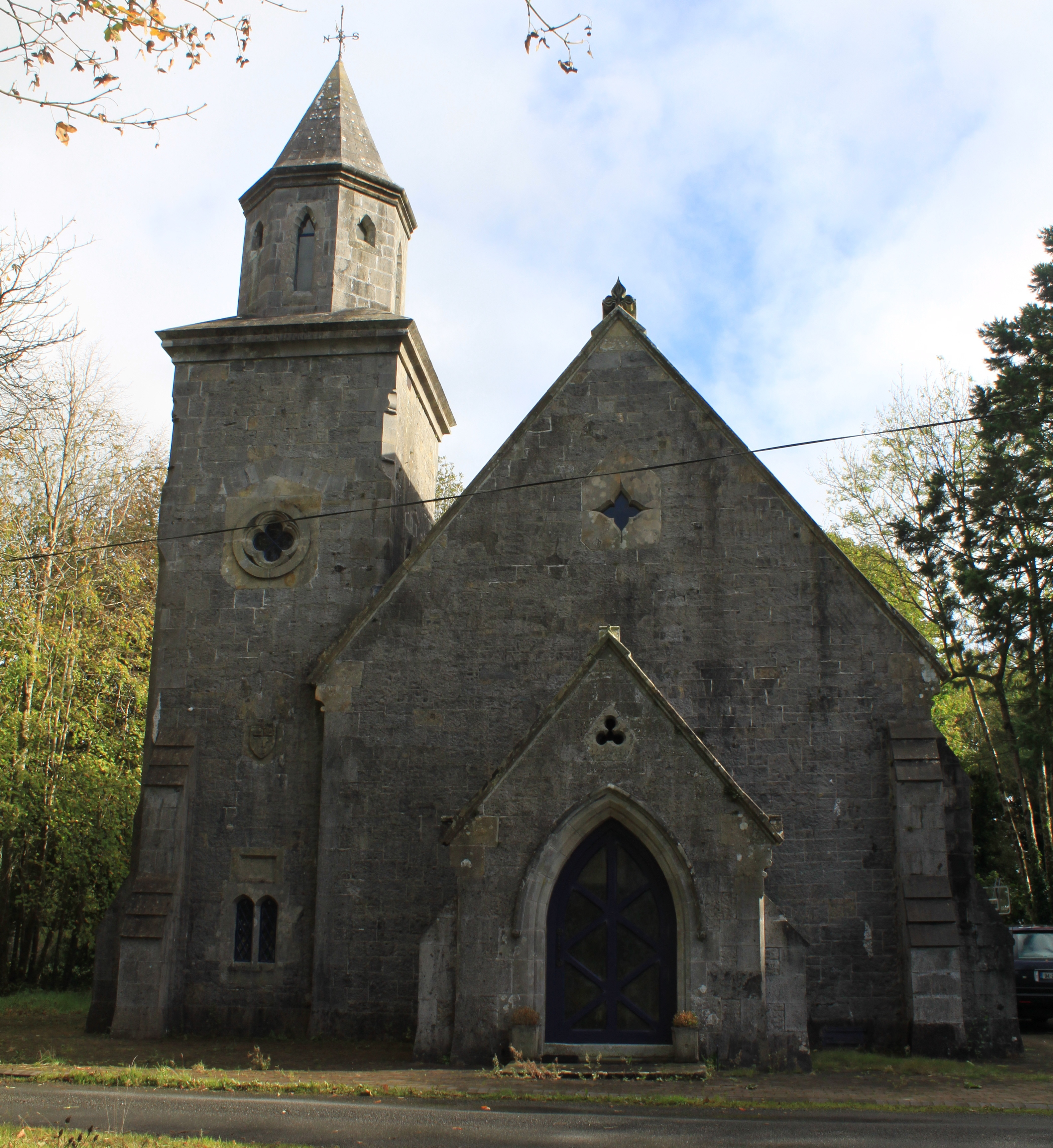 Quivvy Church in Belturbet, County Cavan, Ireland.